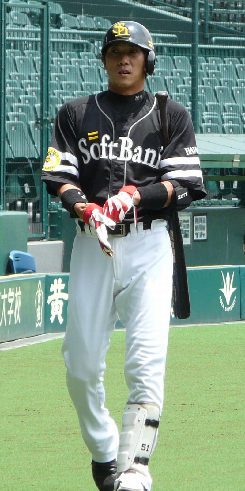 Hisao Arakane, outfielder of the Fukuoka SoftBank Hawks, at Hanshin Koshien Stadium.